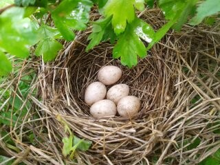 Blackcap (Sylvia atricapilla) nest in blackthorn with eggs, Brilon in Germany